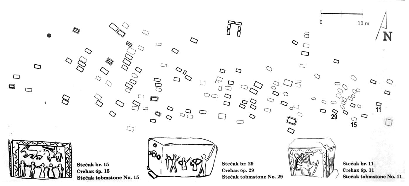 SONY DSC photo of the map in situ describing the posistion of each stećak toombstone in Dugopolje necropolis in Blidinje.